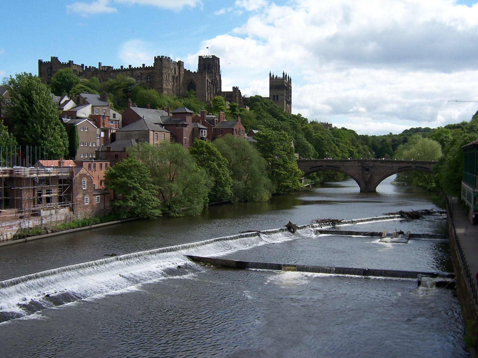 View of Framwellgate Bridge, Durham Cathedral and Durham Castle taken from Millburngate Bridge on the River Wear (Durham, England). own work; photo taken on 28 May 2006